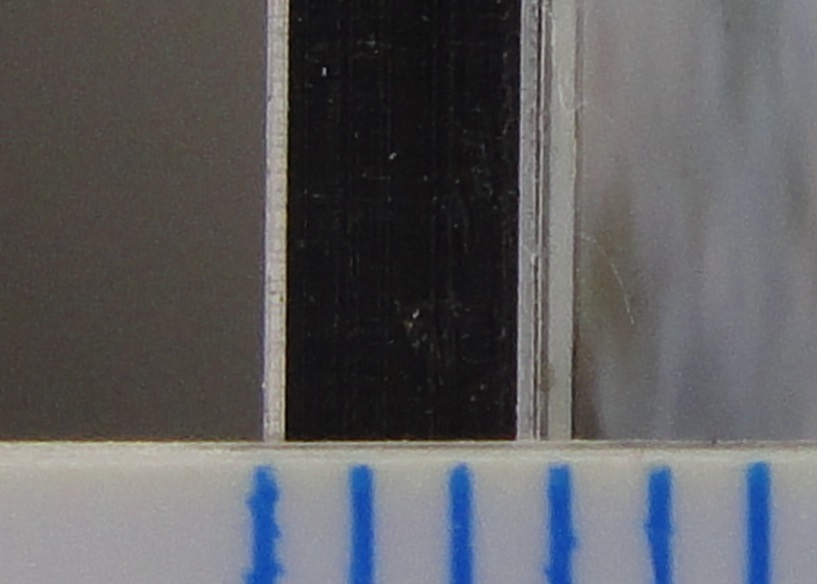 Side view of an Aluminium composite panel (ACP), also known as Dibond, about 2.7 mm in thickness. At the right surface a photo was laminated on, what results in an overall thickness of 3.15 mm. Layers from left (back) to right (front): 1) White coloured back coating layer (too thin to see, perhaps coil coated) 2) Aluminium sheet (silvery, back) 3) Polyethylene core material (Brown) 4) Aluminium sheet (silvery, front) 5) White coloured front coating layer (too thin to see, perhaps coil coated) 6) Photopaper laminated on 7) See through plastic protection layer